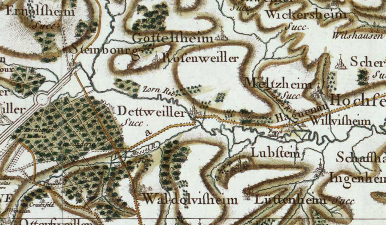 Location of Dettwiller on Cassini's map.